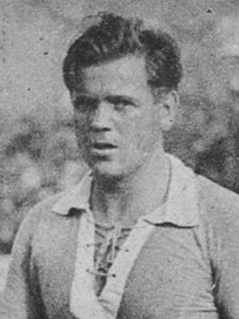 Oskar Rohr (1912-88), German association footballer, then playing for RC Strasbourg